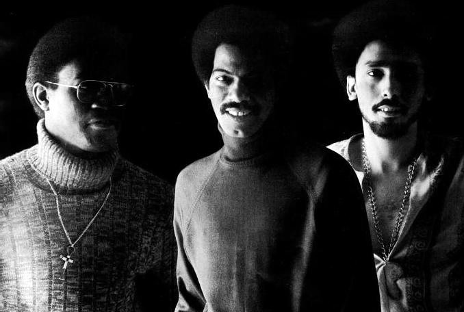 Photo of the music group The Main Ingredient.